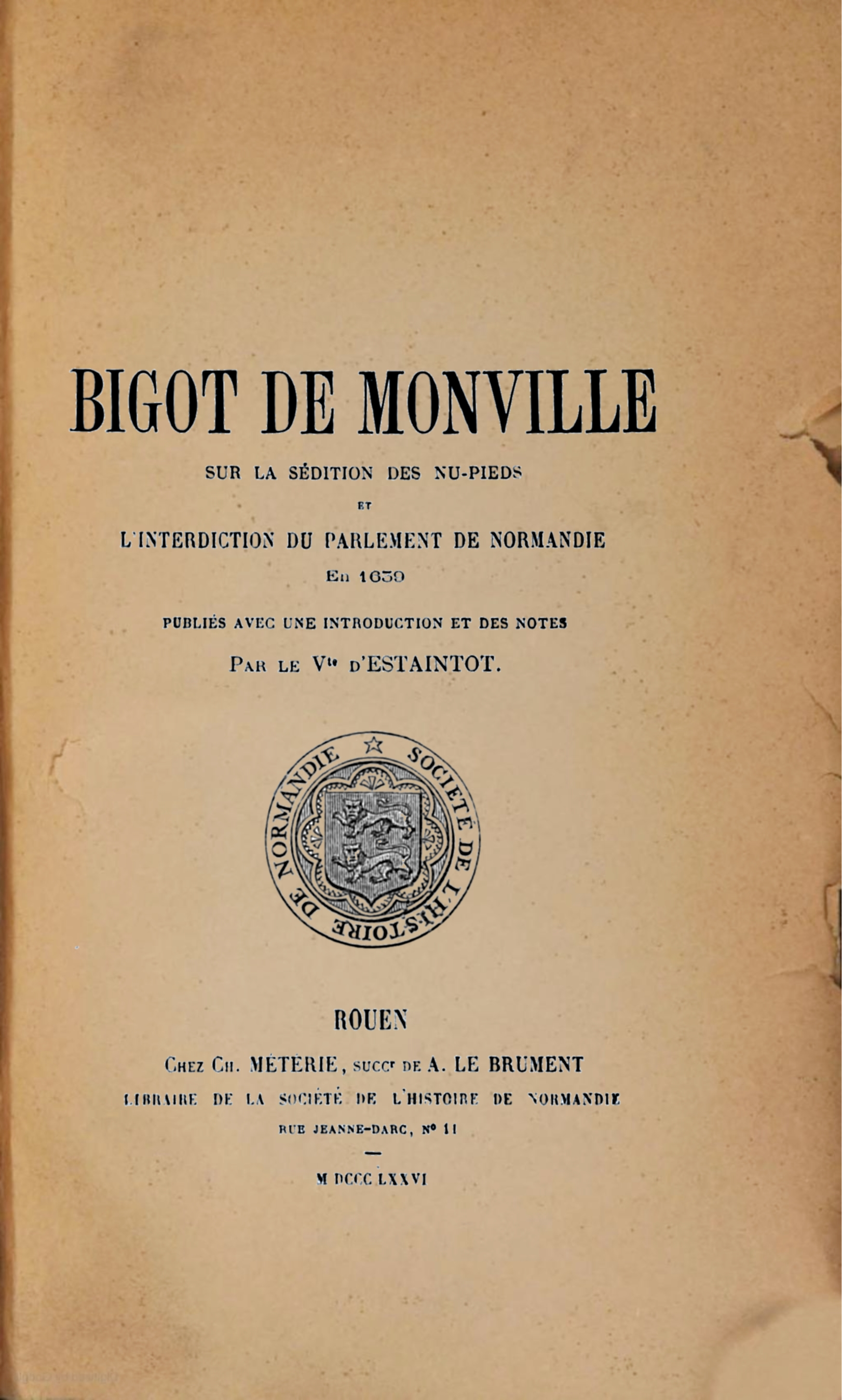 First Page of Bigot de Monville's Mémoires on the Va-Nu-Pied Rebellion (1639)